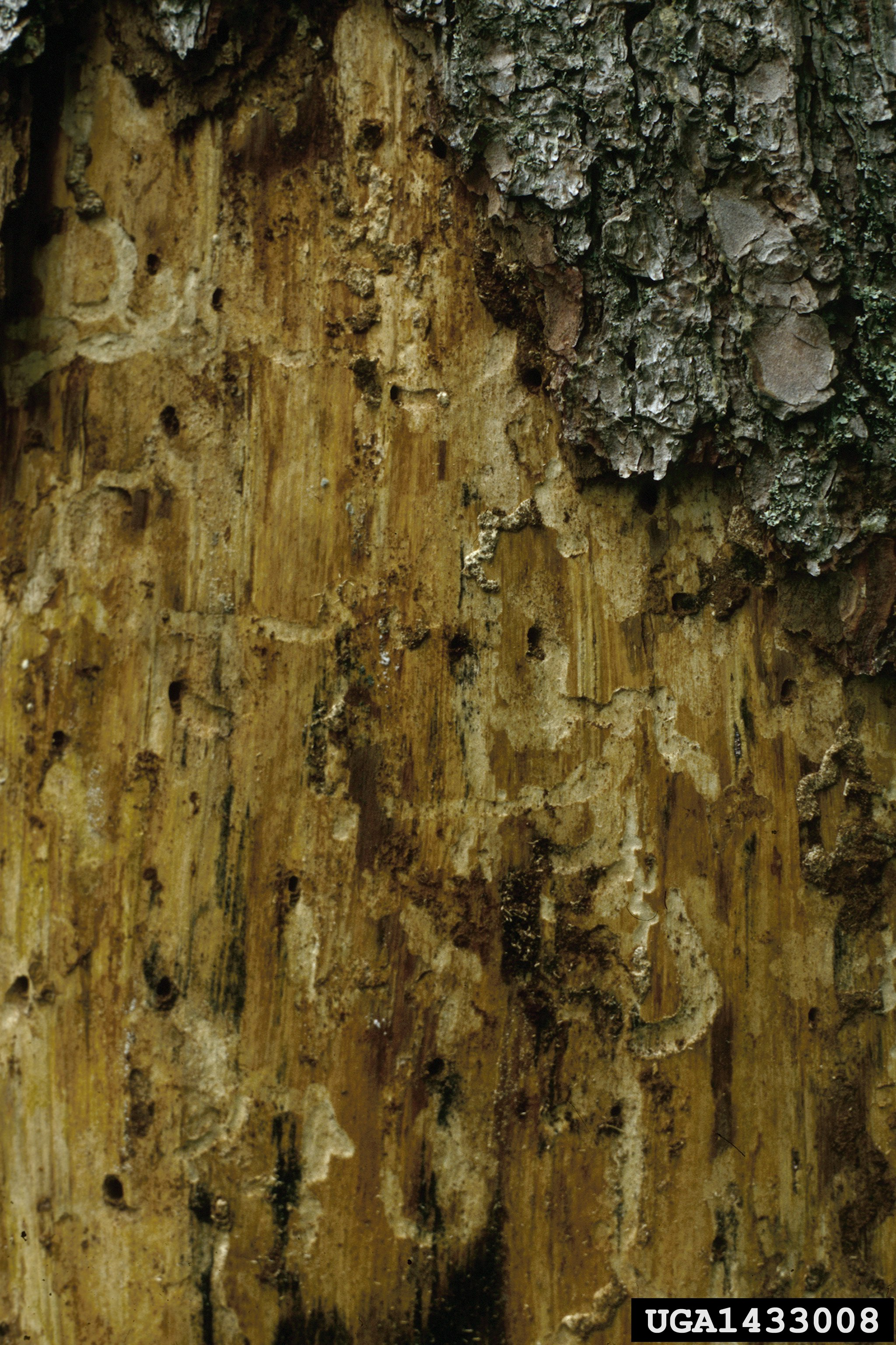 Black spruce beetle (Tetropium castaneum) damage. Eglinio medkirčio (Tetropium castaneum) pažeistas medis.